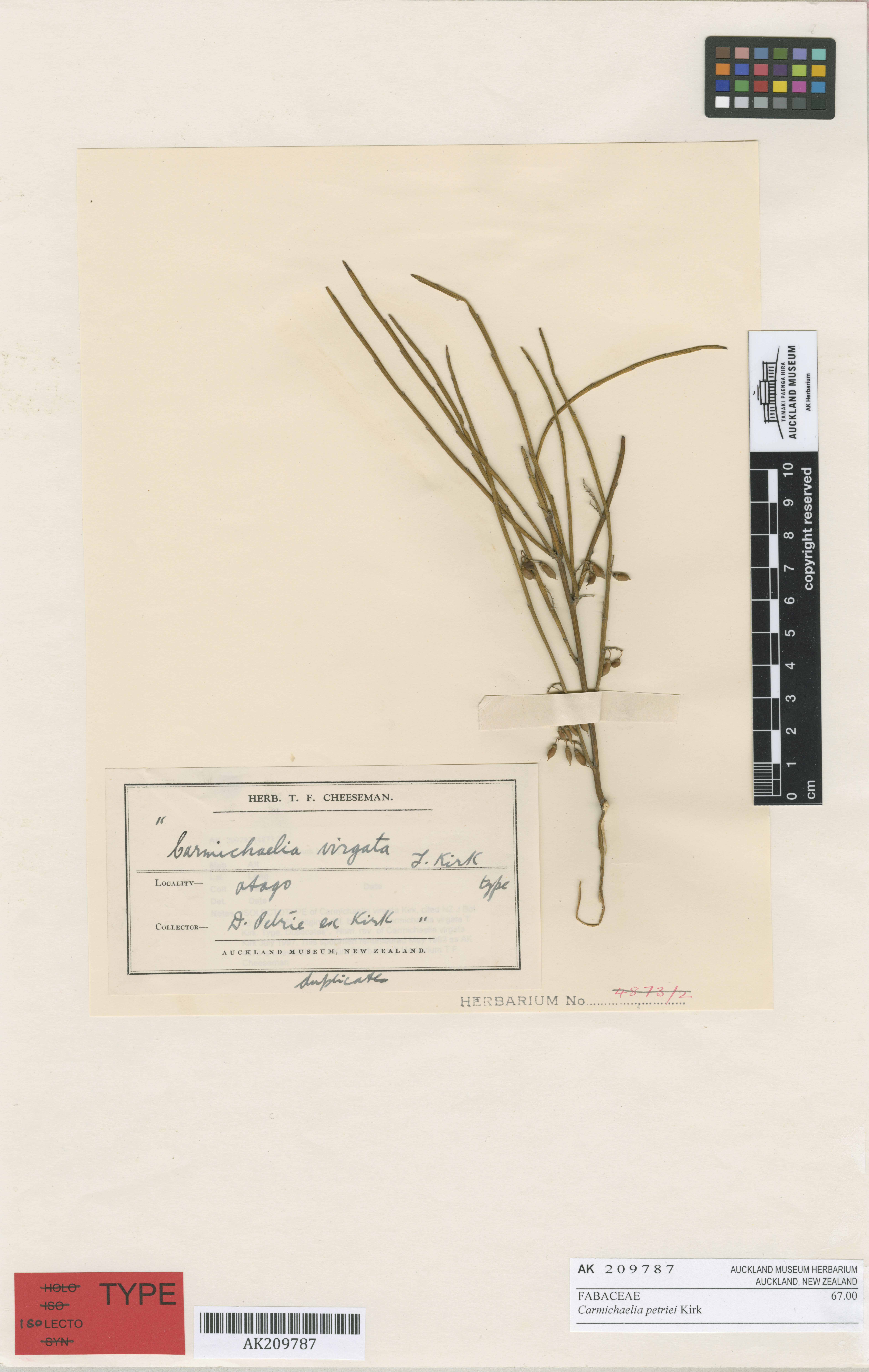 ISOLECTOTYPE of Carmichaelia virgata Kirk, cited N.Z. J. Bot. 33:451(1995). Original det. by TFC: "Carmichaelia virgata T Kirk. Type. Duplicates". Nom. rev. of Carmichaelia virgata Kirk July 1997. This specimen renumbered May 1993 as AK 4873 is unavailable. Ex Kirk [Herbarium].